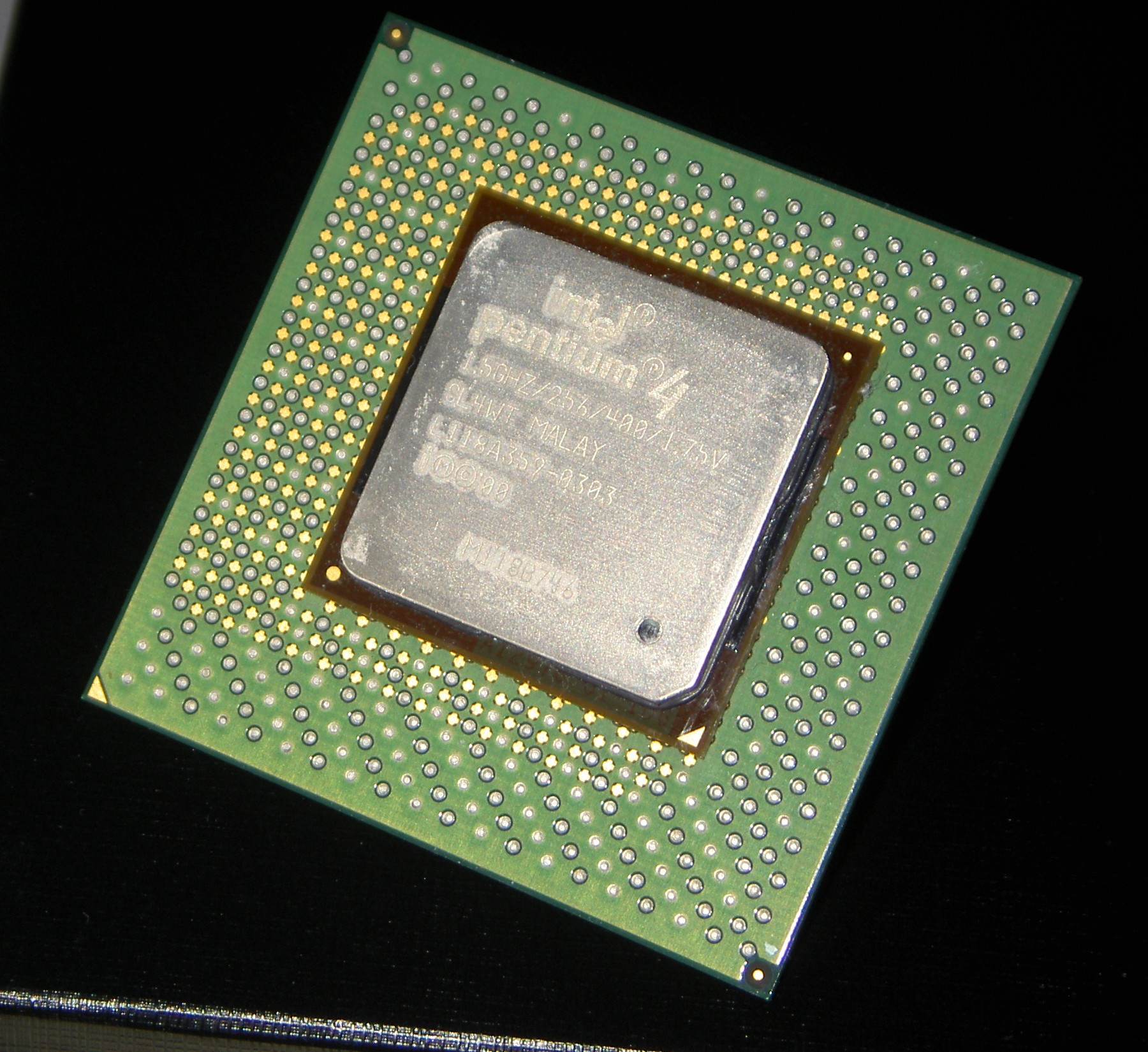 Intel Pentium4 Processor 1.5GHz (Socket423/Willamette)